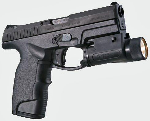 Steyr M-A1 semi-automatic pistol with tactical light.